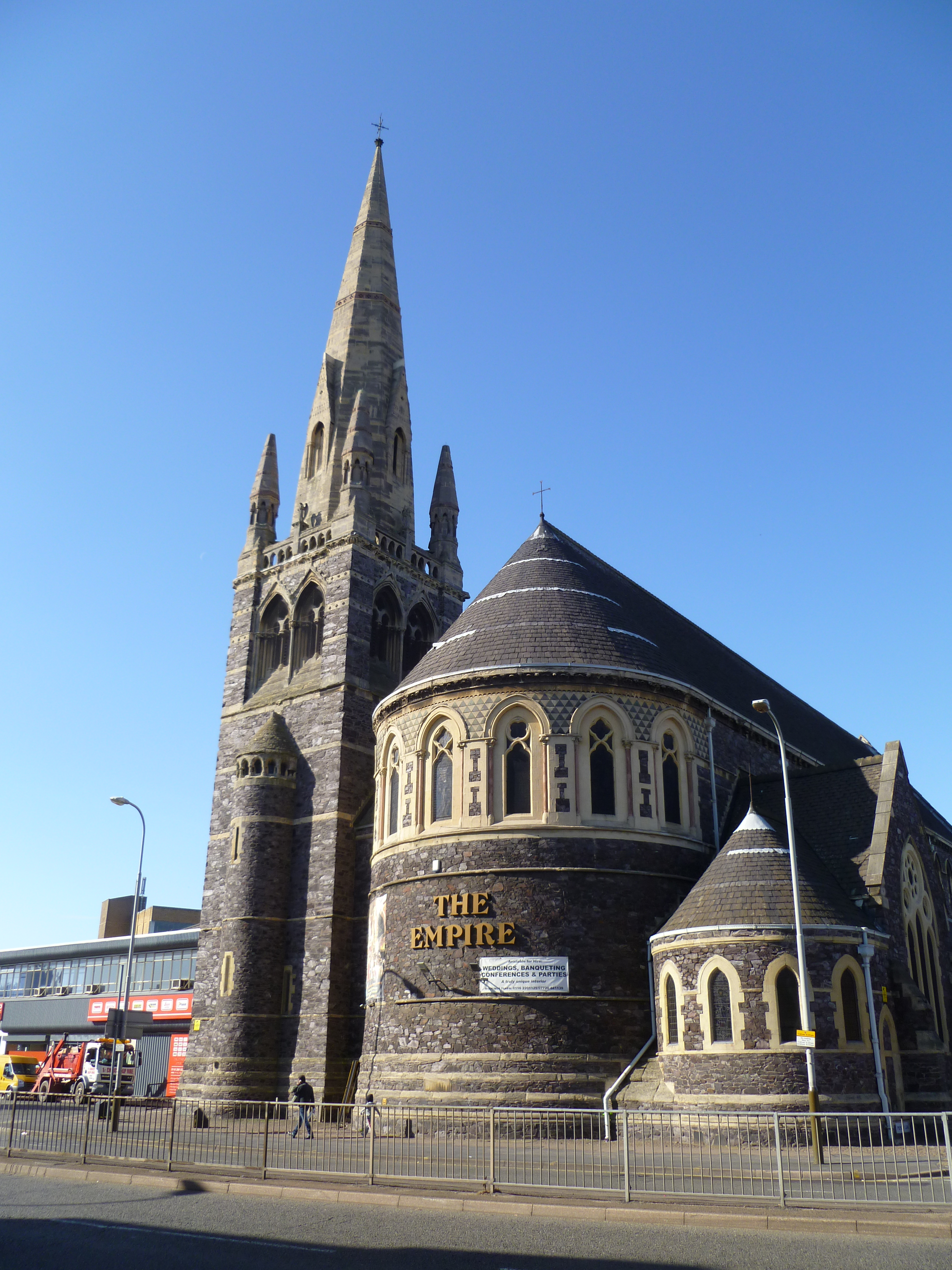 St Mark's Church, Leicester, 1869-72 by Ewan Christian, view of east front